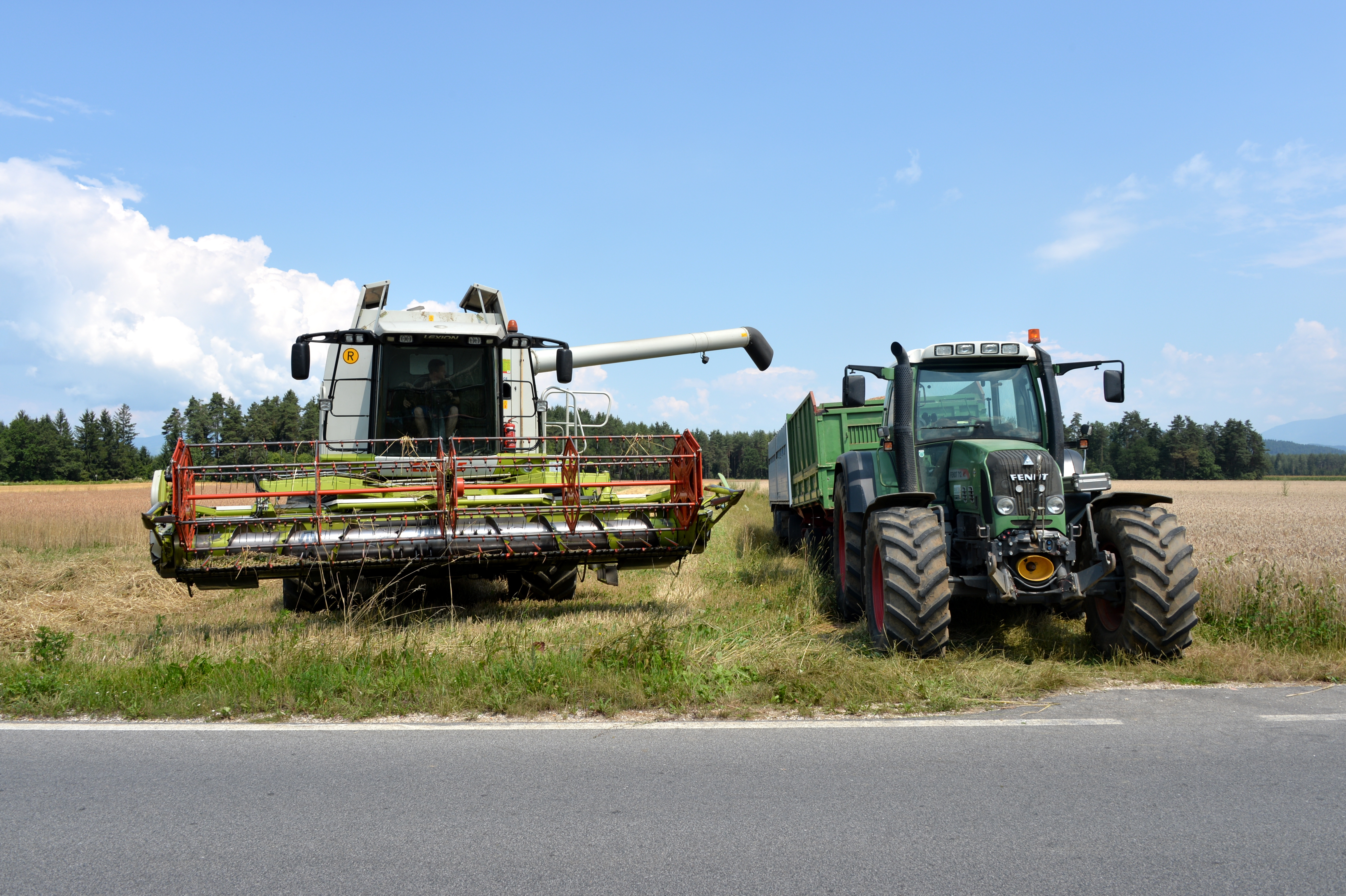 Combine harvester Claas Lexion 540 and tractor-drawn trailer, municipality Feistritz ob Bleiburg, district Voelkermarkt, Carinthia / Austria / EU